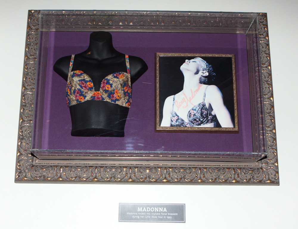 Photo of the floral bra that Madonna wore during her 1993 Girlie Show World Tour.